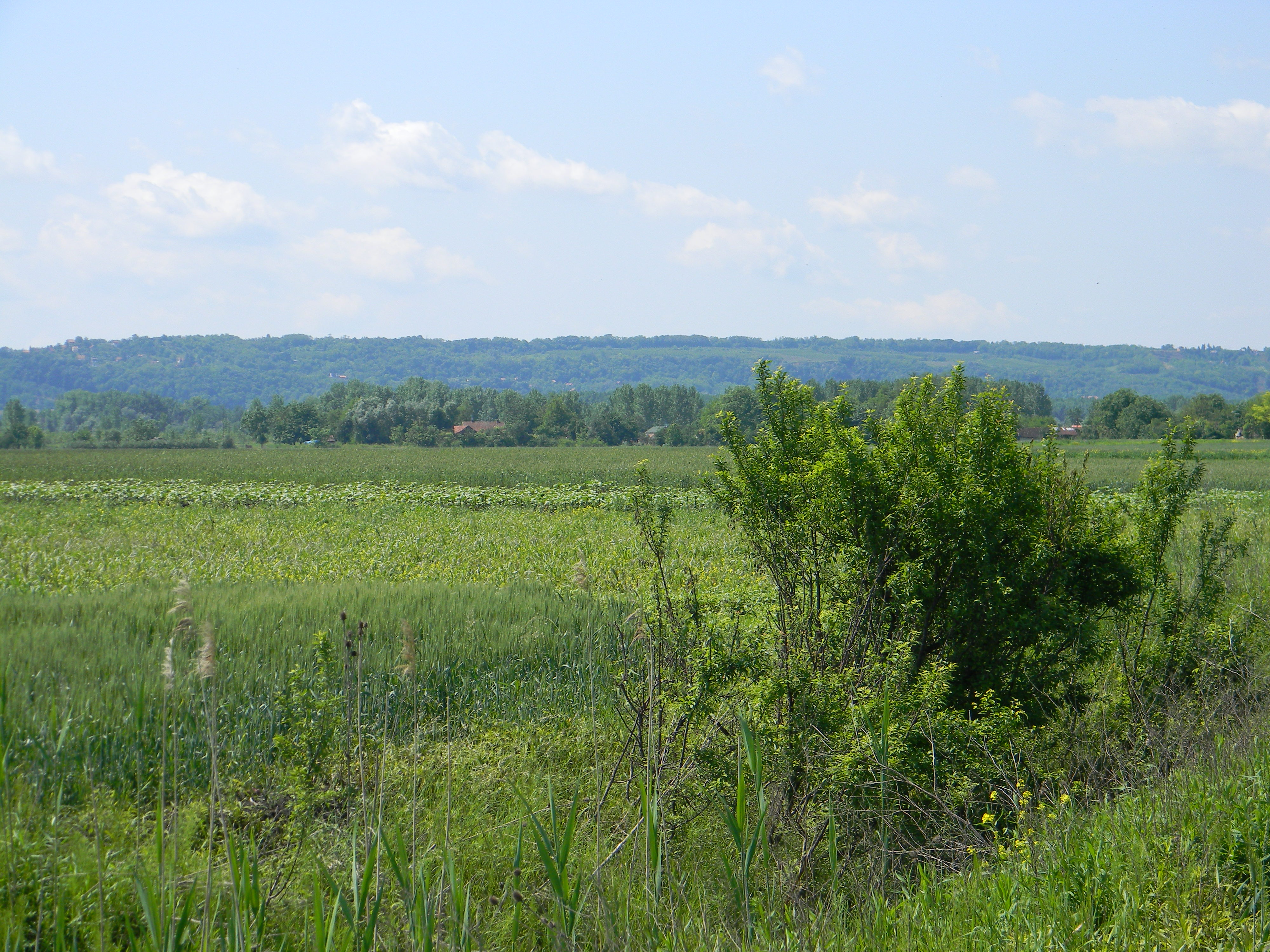 Skorenovački Rit, farm housess close to Danube, near Skorenovac, Serbia. Originaly populated with Szekelys from Bukovina